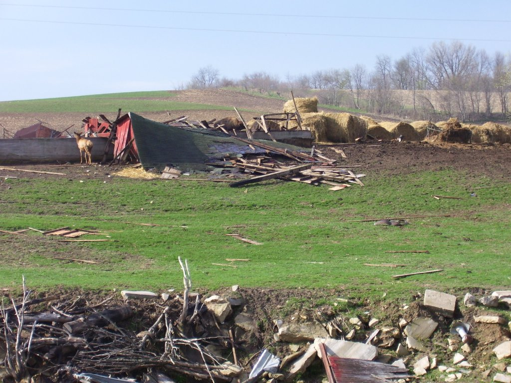 Tornado damage near Anomosa, Iowa